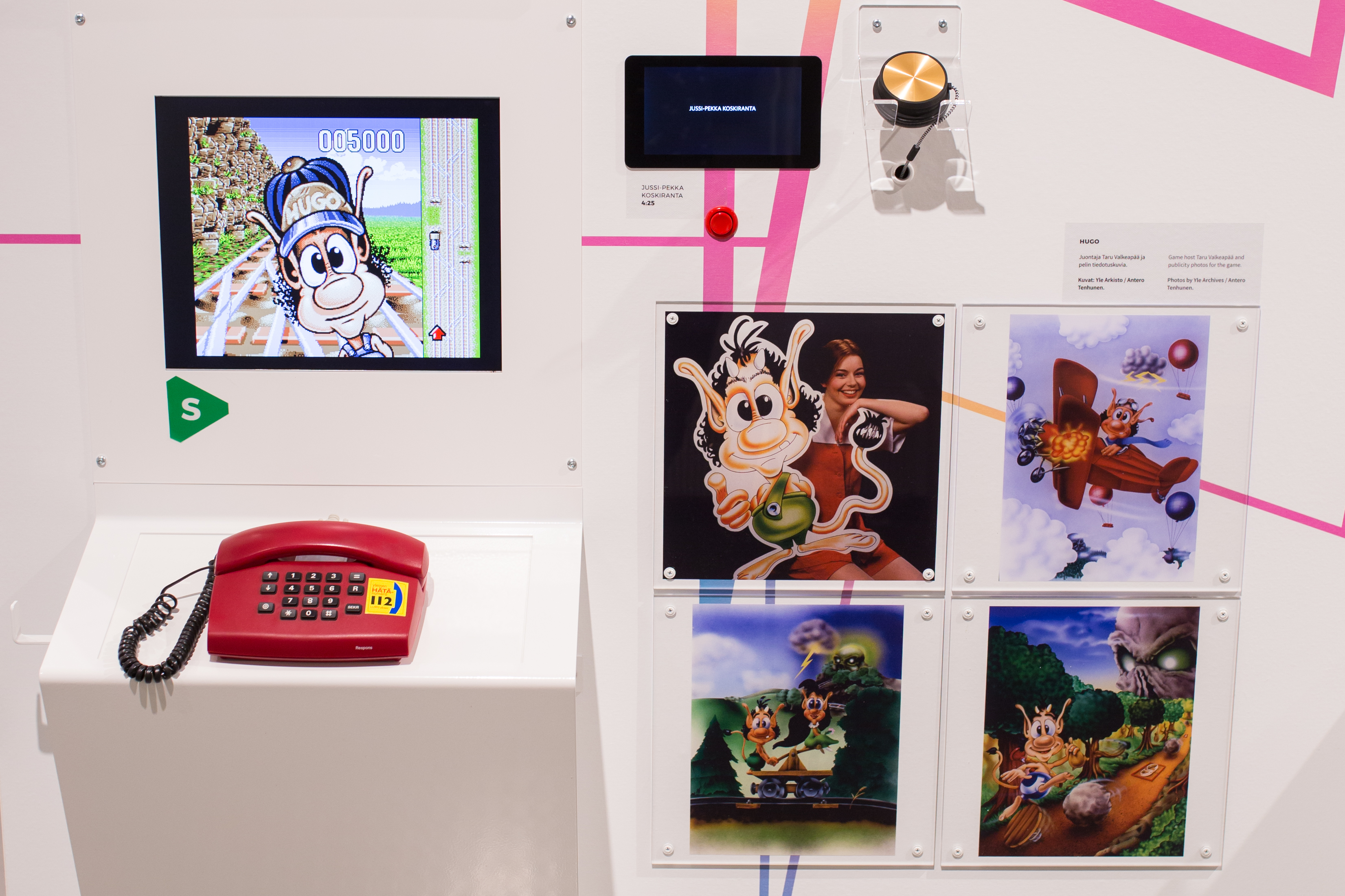 Hugo television show in The Finnish Museum of Games